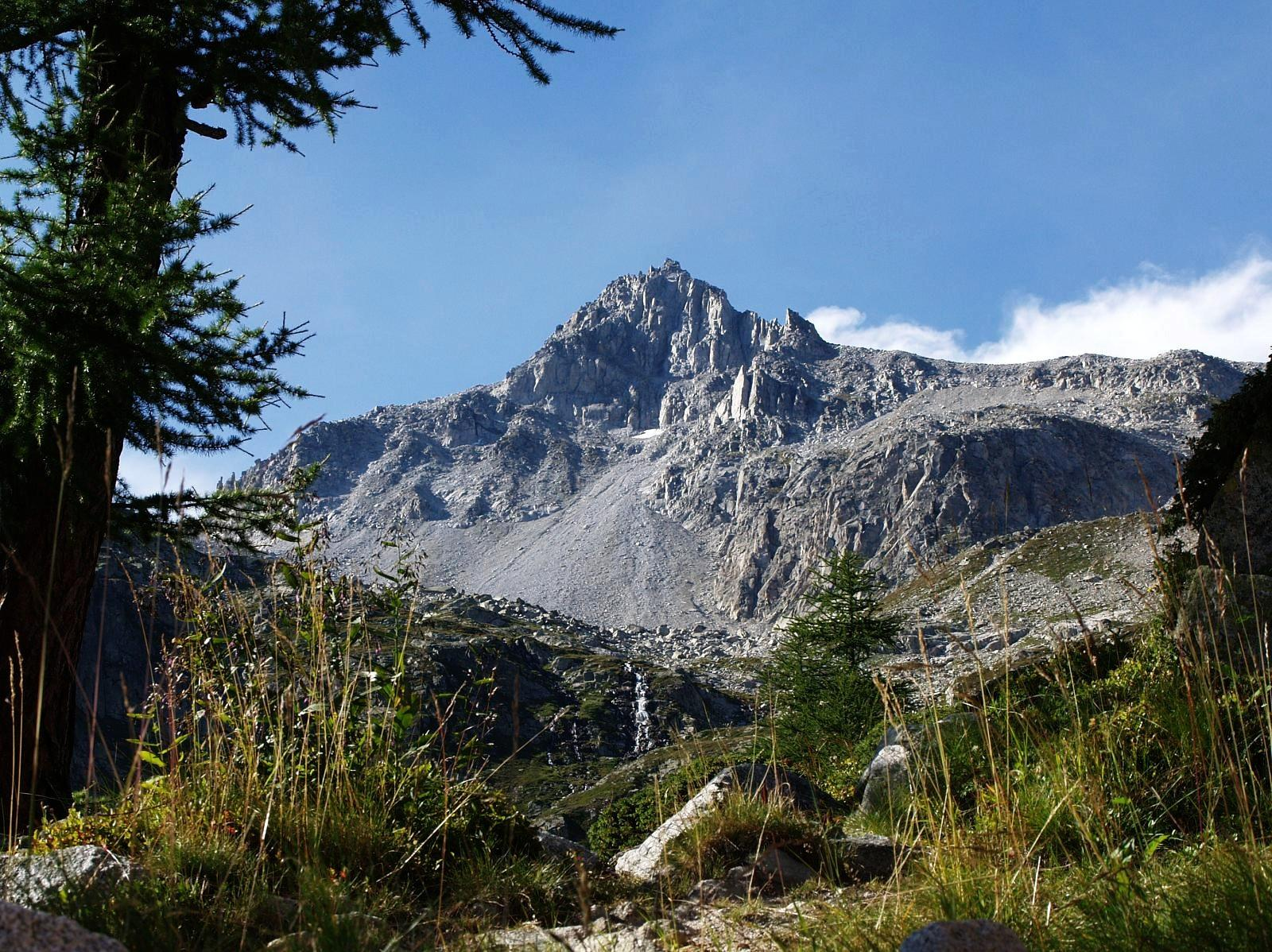 Chüebodenhorn from south (Valais, Ticino)